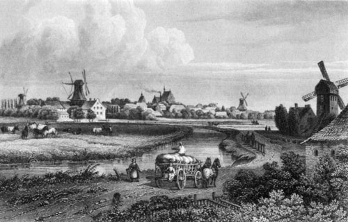 Norden (East Frisia, Germany) in about 1845. Workpiece by Johann Gabriel Friedrich Poppel (1807-1882) after a drawing by Ludwig Rohbock.